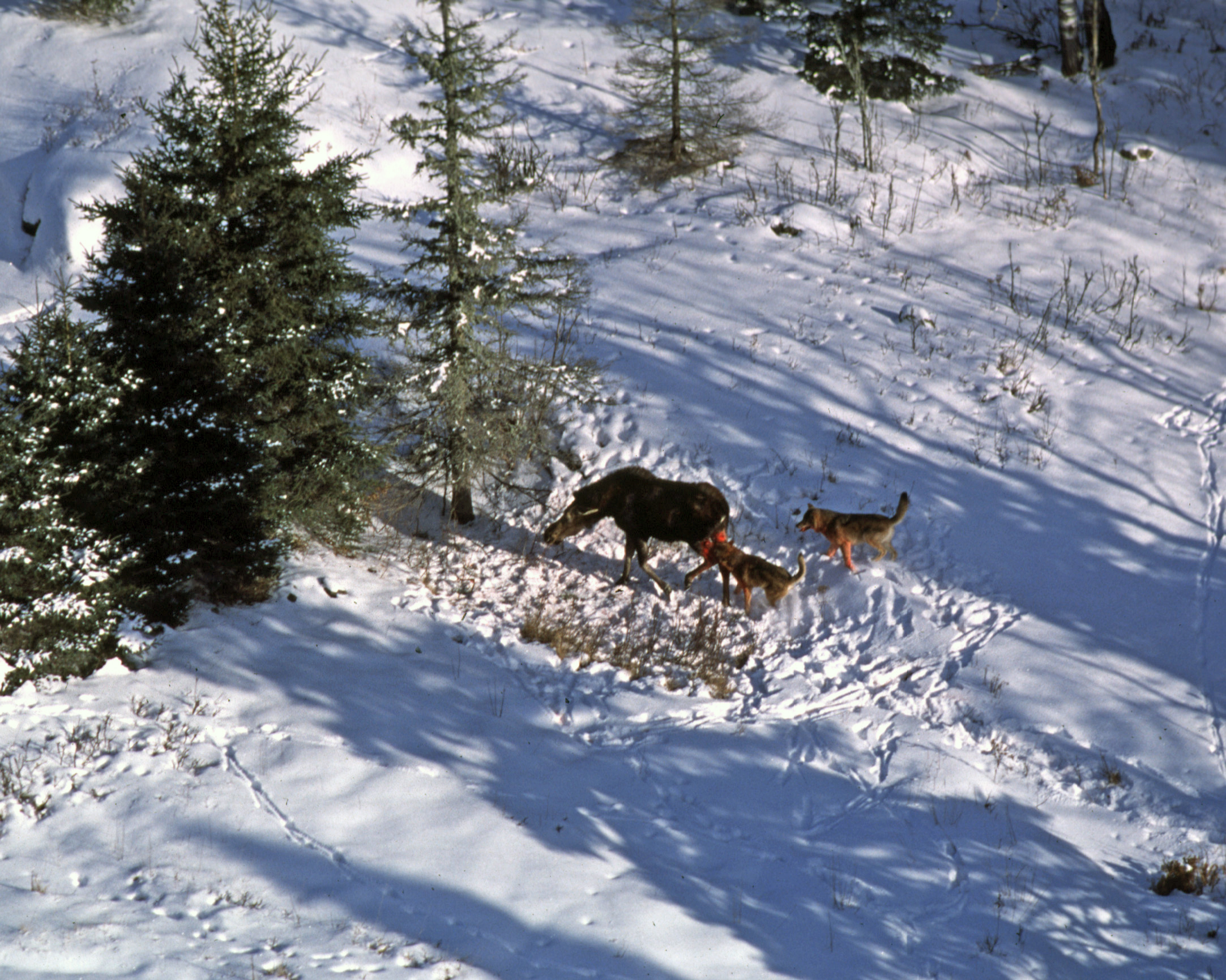 Two wolves attack a moose at Isle Royale, Michigan, United States.